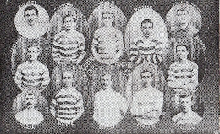 A collection of photographs of the players of Queens Park Rangers F.C. from the 1907/08 season.